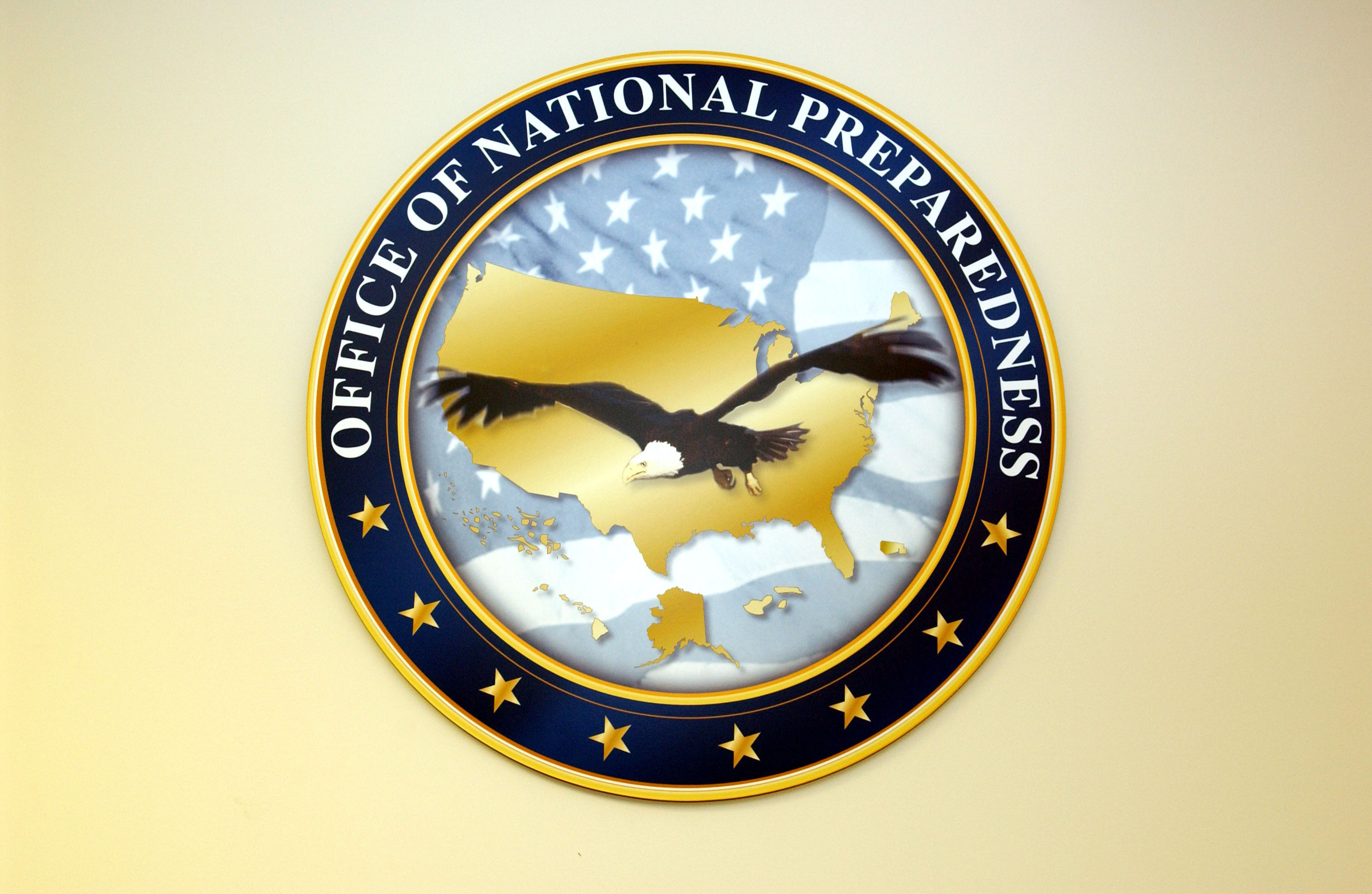 Washington, DC, March 12, 2003 -- FEMA's Office of National Preparedness expanded and took on extra urgency following the terrorist attacks of 9/11. Photo by Jocelyn Augustino/FEMA News Photo